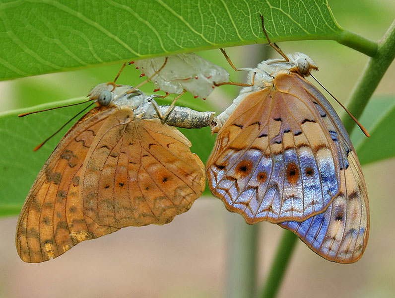 Common Leopard Phalanta phalantha in Hyderabad , India.